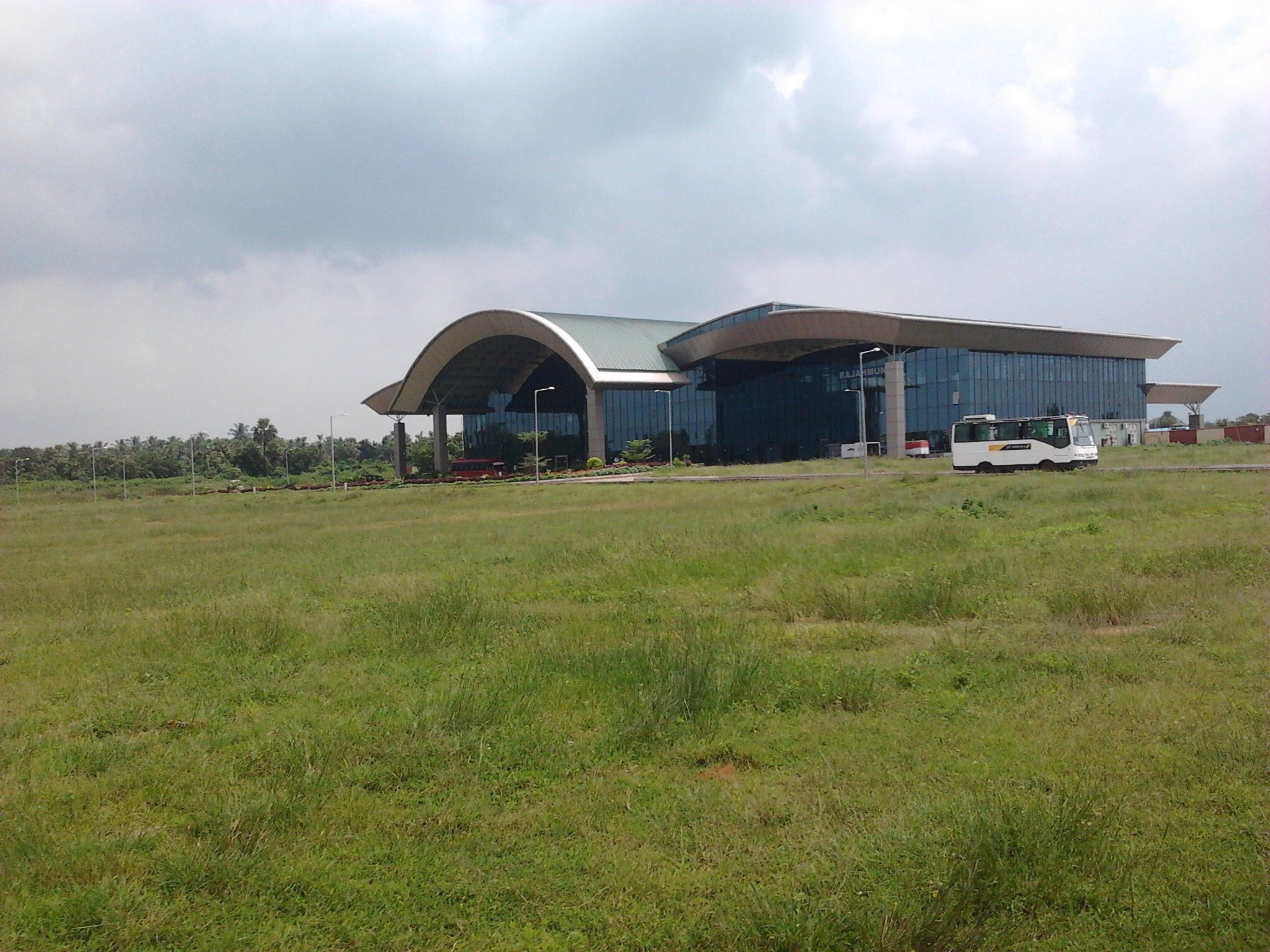 The passenger terminal of Rajahmundry Airport in Andhra Pradesh, India.